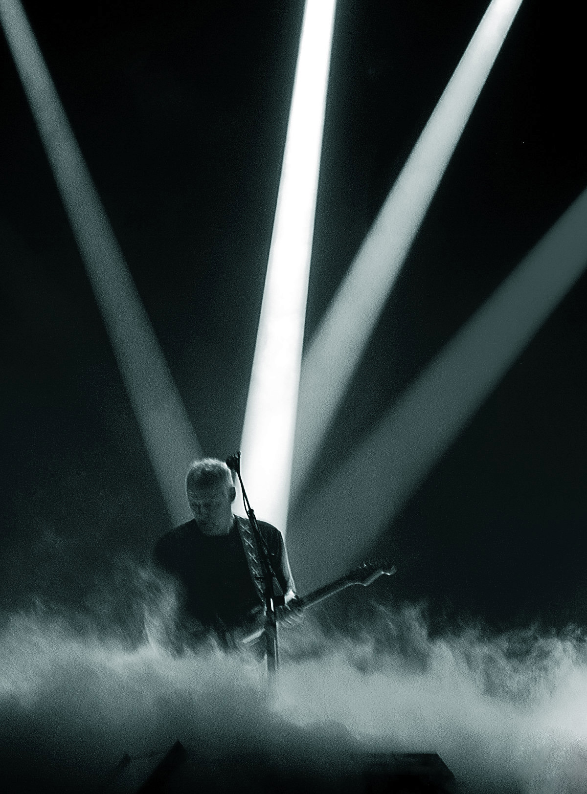 David Gilmour in concert in Munich, Germany